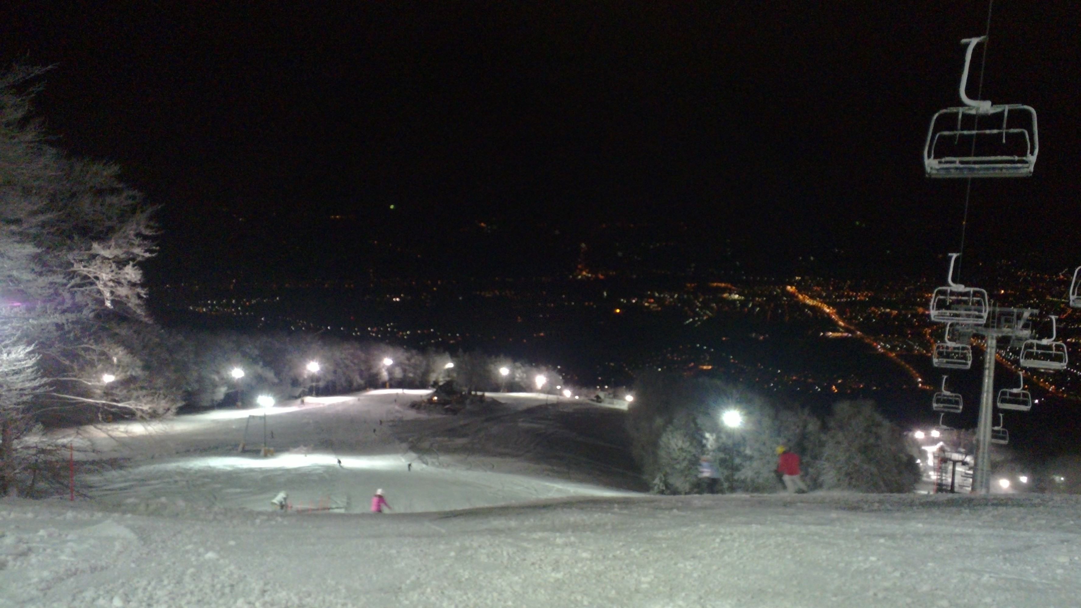 Night skiing at Mariborsko Pohorje ski resort in Maribor, Slovenia. Mariborsko Pohorje has one of the longest night ski slopes in Europe.